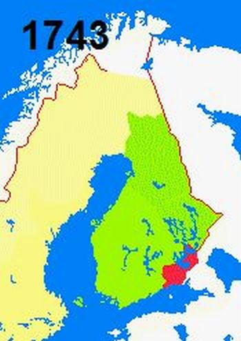 Border changes in Finland 1743